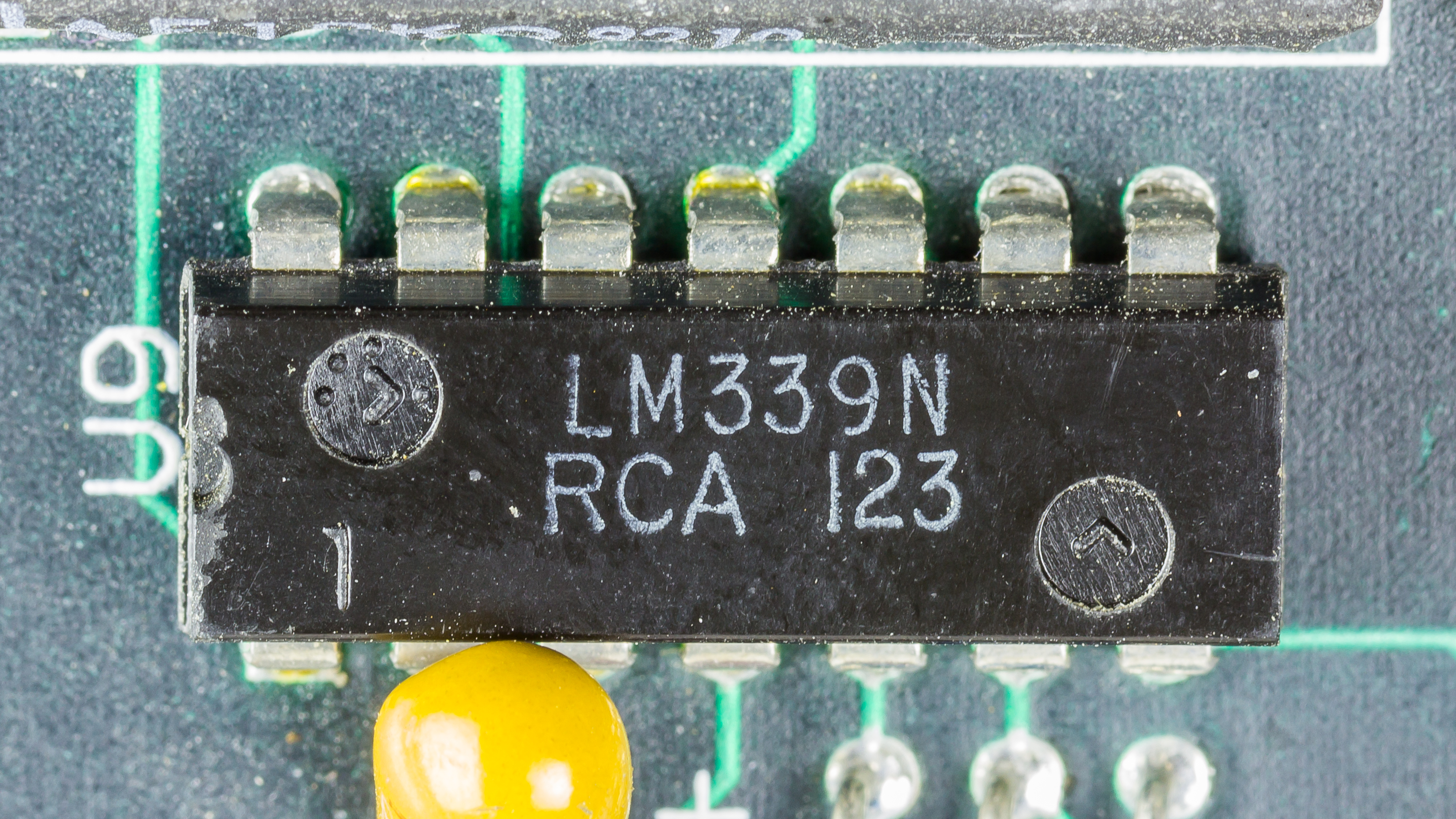 Basic Measuring Instruments - Math Processor 83002190 - RCA LM339N - Comparator